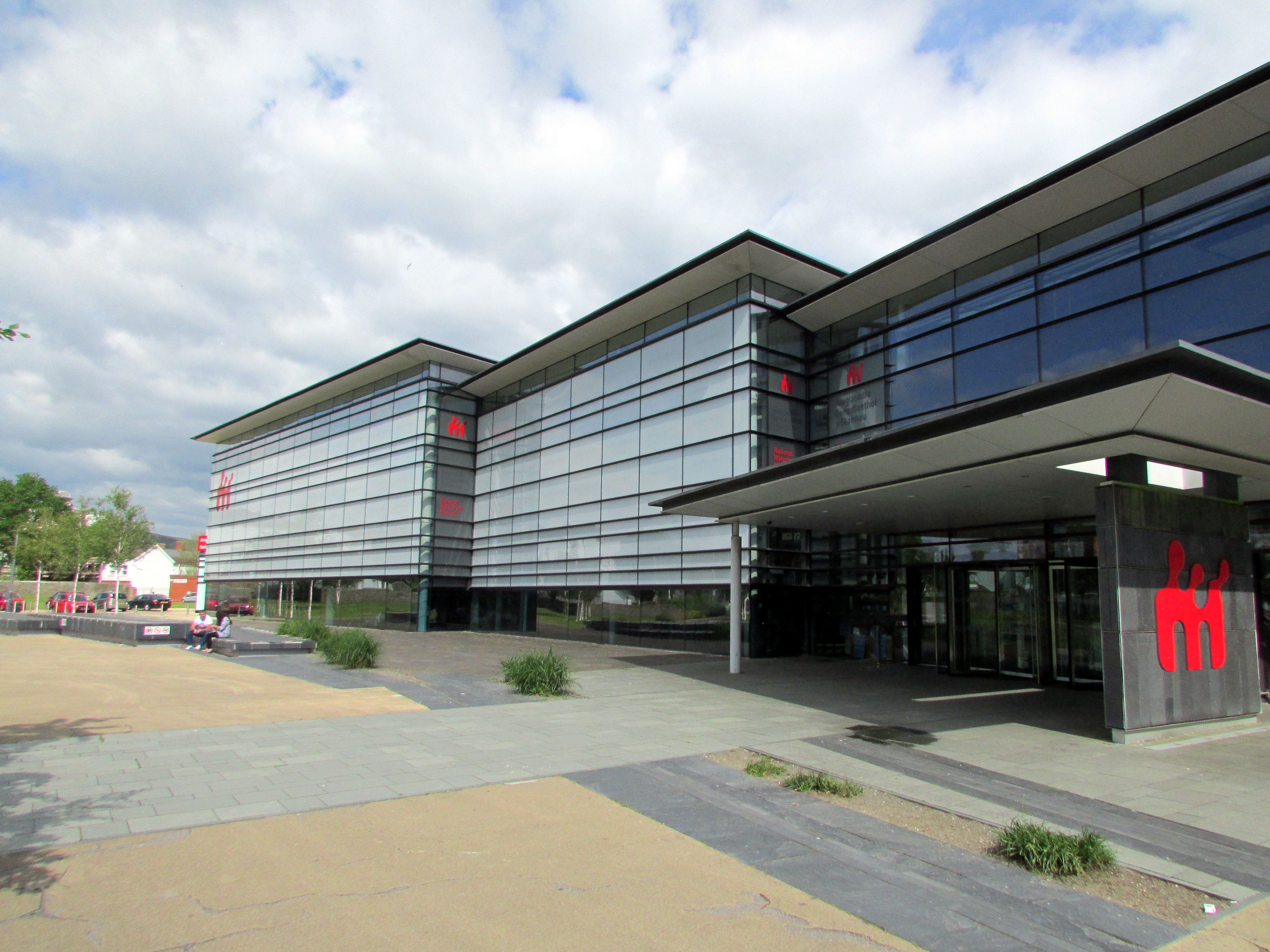 Oystermouth Road, Swansea.